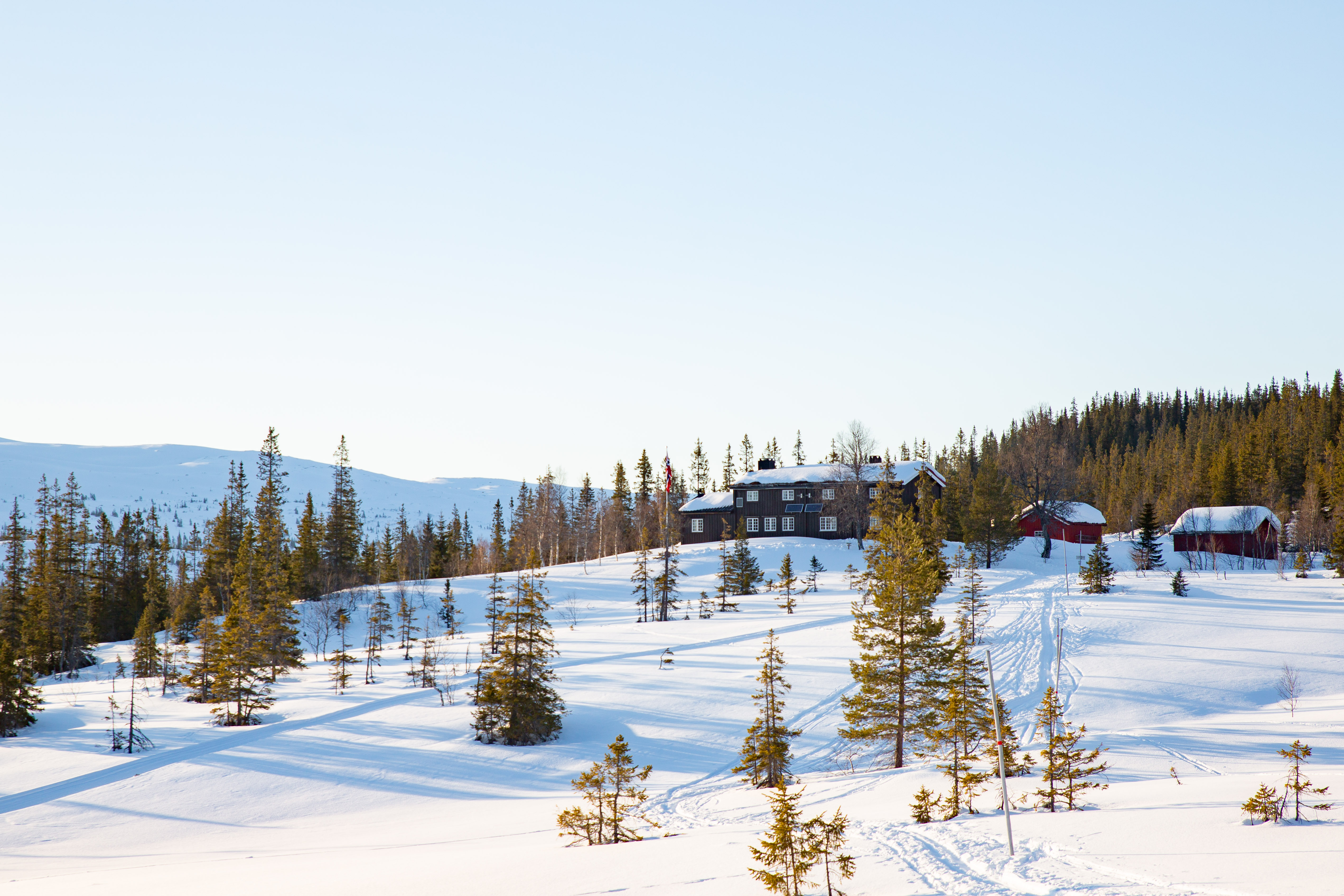 Schulzhytta in winter, Sylan, Norway